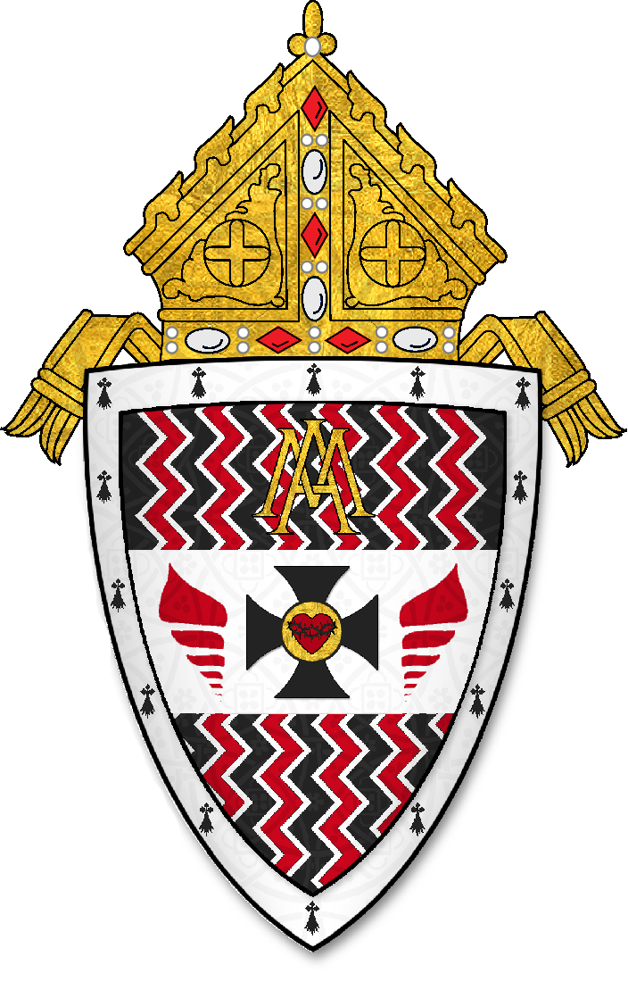 This is a representation of the coat of arms of the Roman Catholic Archdiocese of Suva. The following Commons images were used to create this image: Aspilogia style template and textures by Rs-nourse (talk · contribs) File:Roman Catholic Diocese of Erie.svg by Niagara (talk · contribs) (mitre) File:Coat of arms of Timothy Lawrence Doherty.svg by SajoR (talk · contribs) (Sacred Heart) File:Cross-Pattee-Heraldry.svg by Masturbius (talk · contribs) Ermine spot by Viking Answer Lady Monogram Ave Maria by Alvaro Cabrera from the Noun Project Seashell by nathanbui from the Noun Project Original illustration created using Wikimedia commons and other CC assets, based on a hand-drawn illustration that was labelled "Arms of the Archdiocese of Suva" [see here: There was no blazon published there but I would infer it to be: "sable six pallets dancetty gules fimbriated argent on a fesse of the third between two triton shells of the second a cross pattee of the first surmounted by a bezant charged with a Sacred Heart proper, in chief Our Lady's Monogram AM intertwined or all within a bordure ermine"